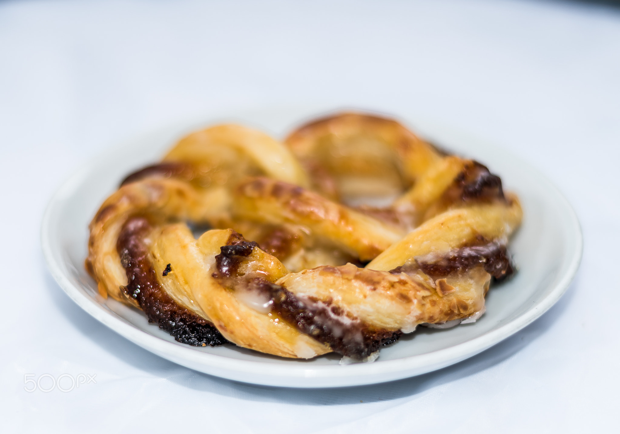 500px provided description: Food Photography [#food photography ,#food photos ,#professional food photography ,#food shot ,#Food photography ,#photographing food ,#dessert photography ,#commercial food photography ,#best food photography ,#photos of food ,#commercial advertising photography christmas food photography fo ,#dessert photos ,#famous food photographers ,#food photography blog ,#photography of food]